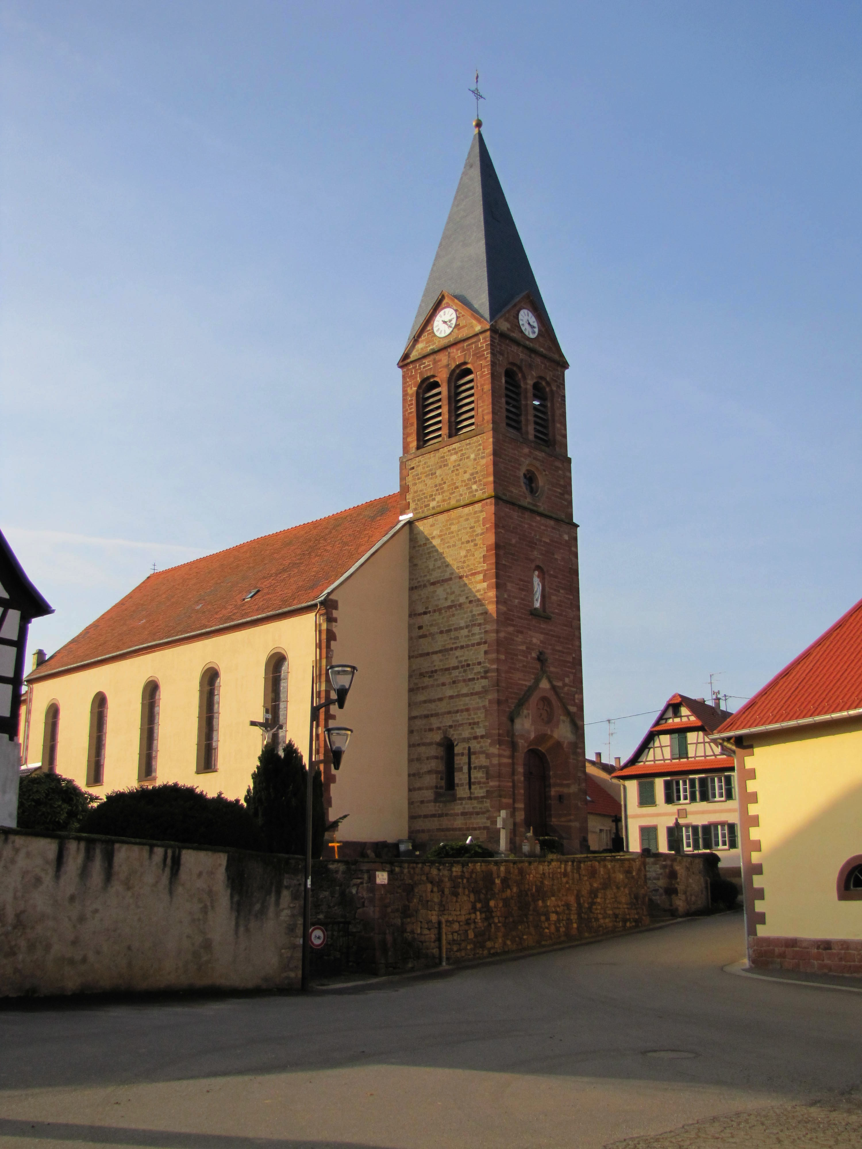 Alsace, Bas-Rhin, Waldolwisheim, Église Saint-Pancrace (IA00055499).